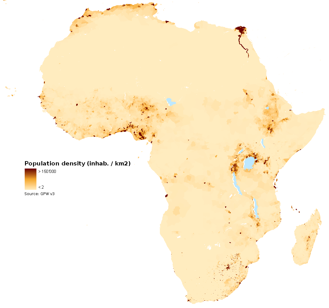 Population density in Africa, 2005.